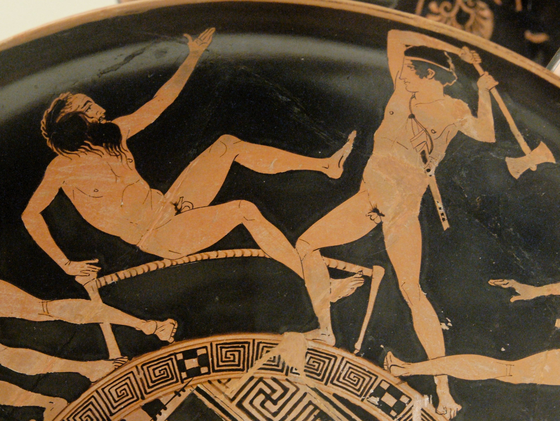 Theseus fighting Prokrustes. Surround of the tondo of an Attic red-figured kylix, ca. 440-430 BC. Said to be from Vulci.